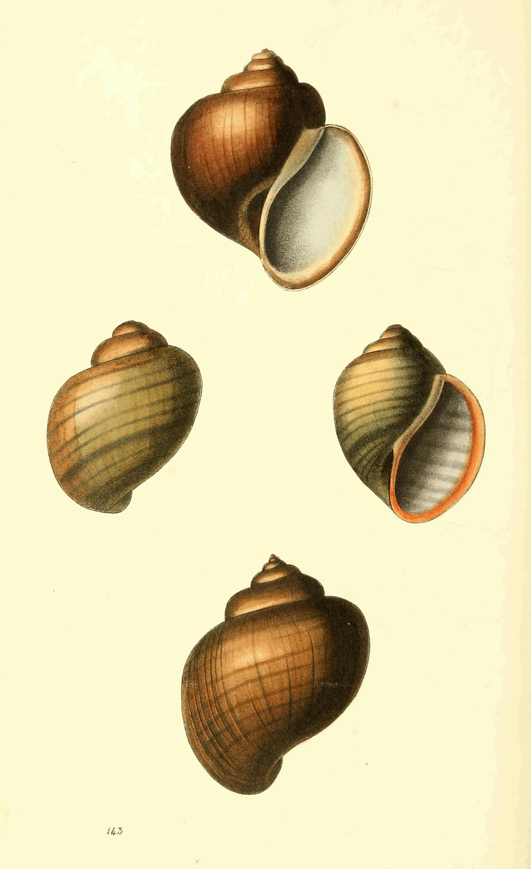 Plate 143. Ampullaria sordida. Brown Apple Snail (upper and lower figures). Modern accepted name not traced. Ampullaria puncticulata. Oval, punctured Apple Snail (middle figures).